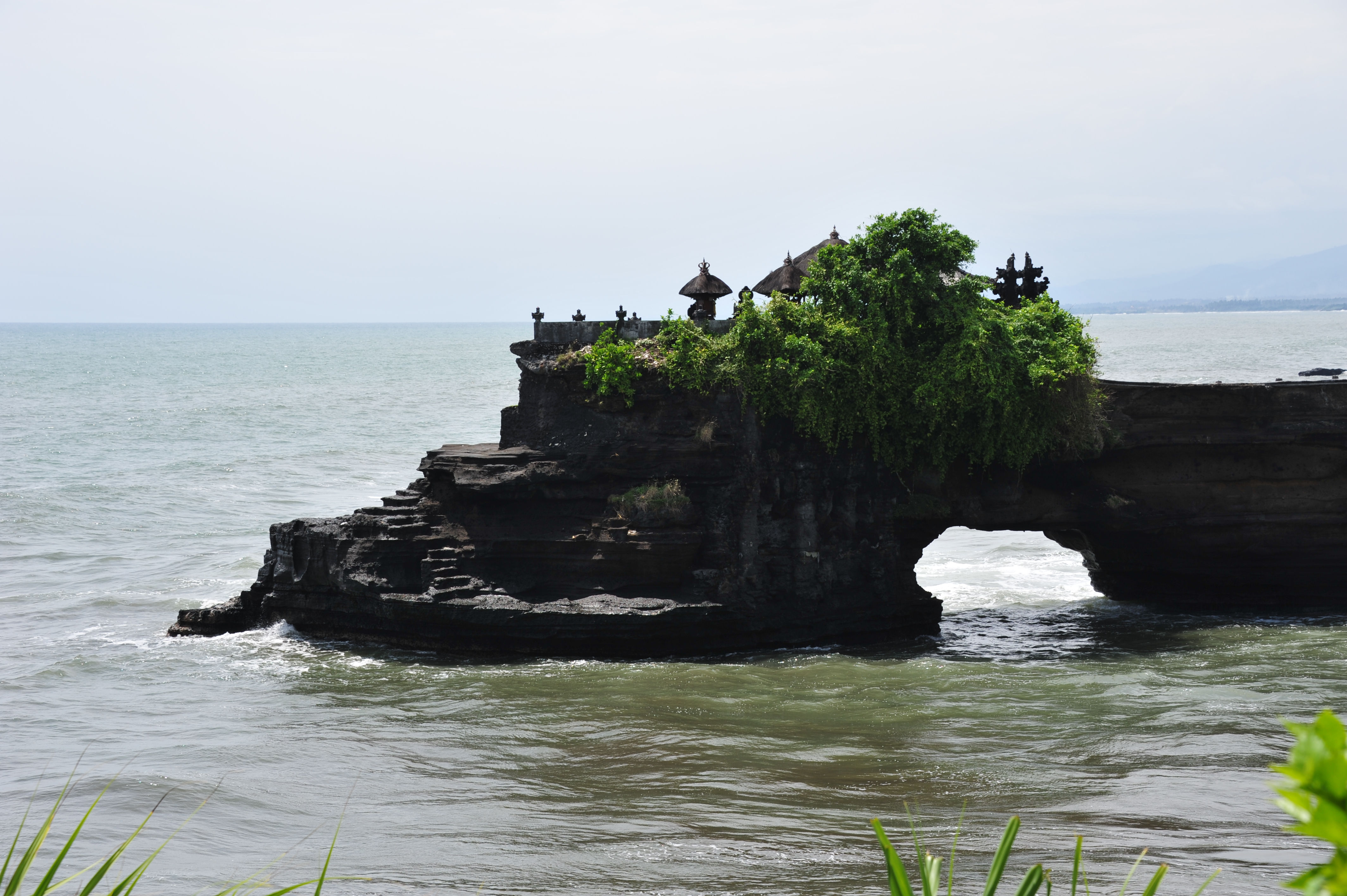 pura batu balong hindu temple bali 2011 tanah lot